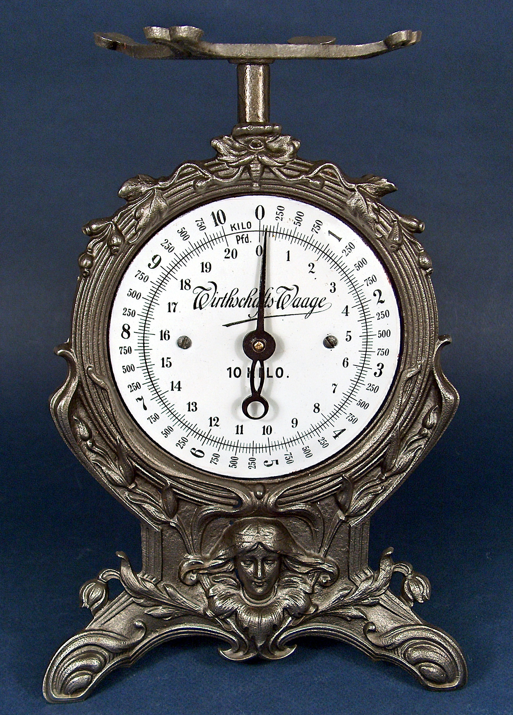 Kitchen scale, around 1900. It is located in Museum of Science and Technology Belgrade.